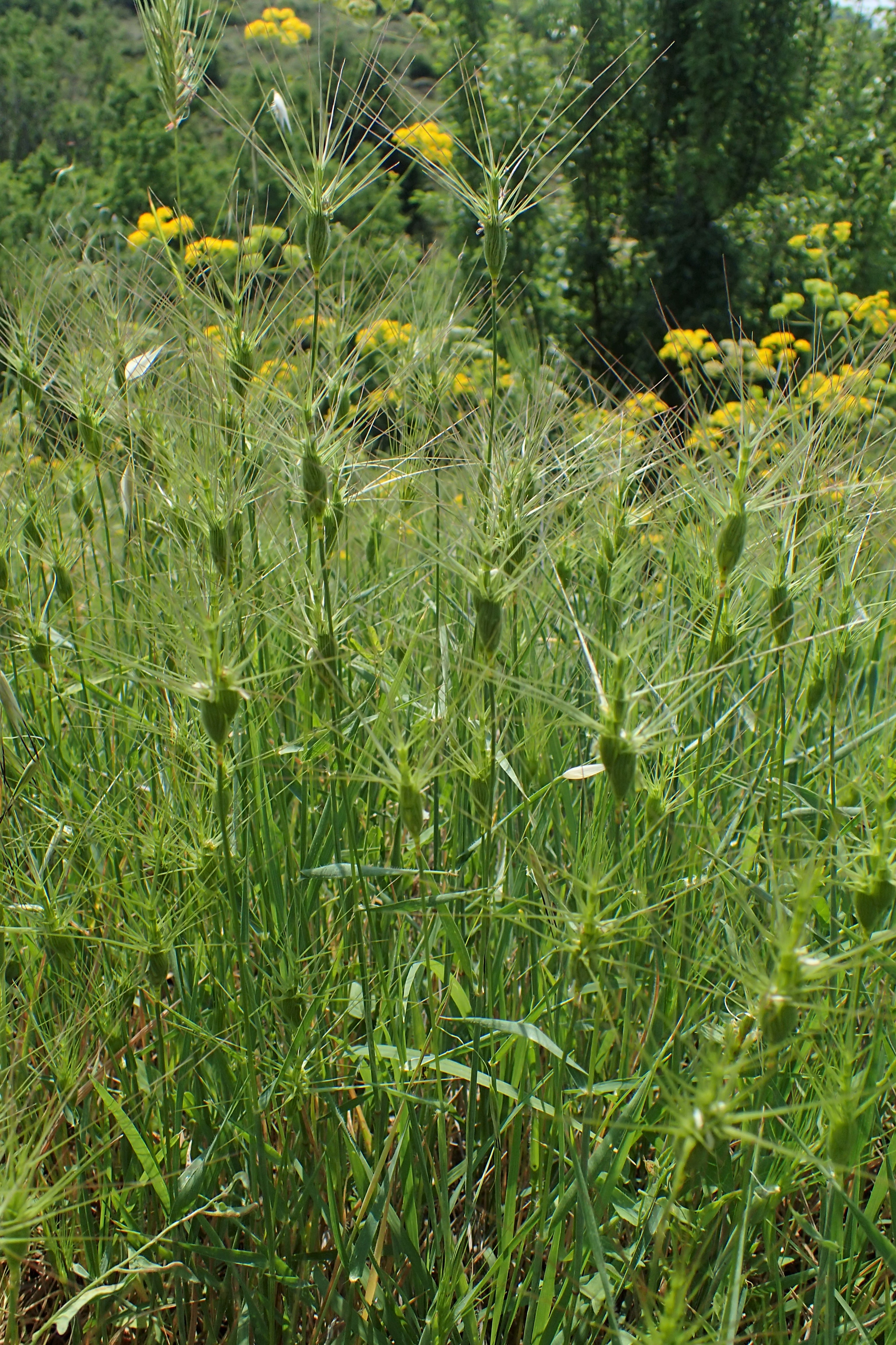 Aegilops lorentii in Plagia near Cherso, N Greece